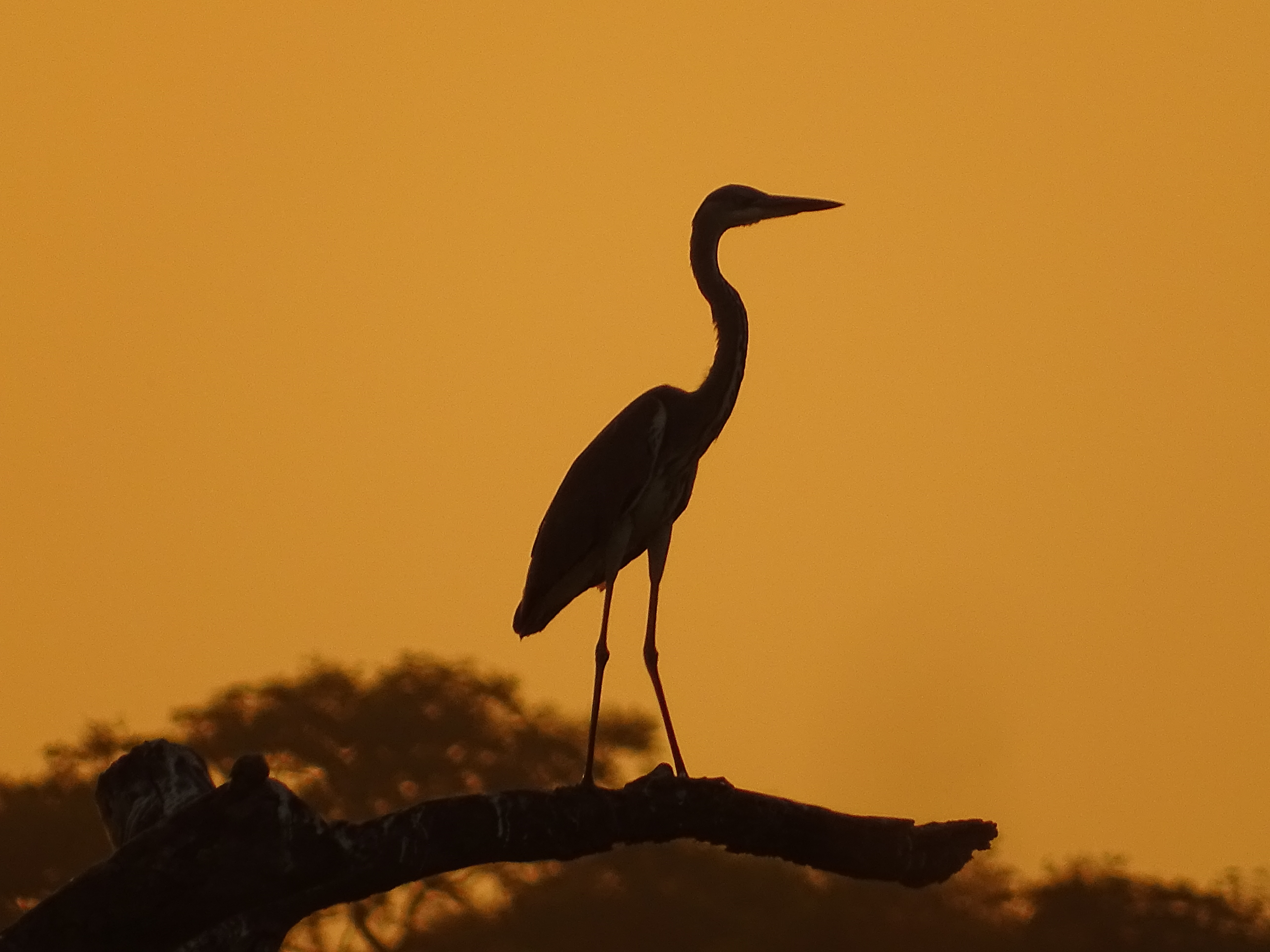 The melanocephalous heron is a large waterbird, found in much of Pendjari Park where it is the main resident, 85 centimeters high, and with a wingspan of 150 centimeters. It is almost as large as the gray heron, which it looks like in appearance, although it is generally darker. Its flight is slow, with its neck retracted.